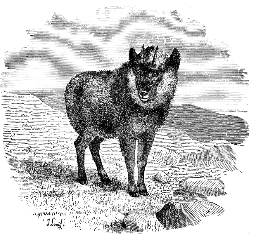 Fig. 176.—Japanese Goat Antelope. Nemorrhaedus crispus. × 1⁄12. (From Nature.) Now referred to genus Capricornis.